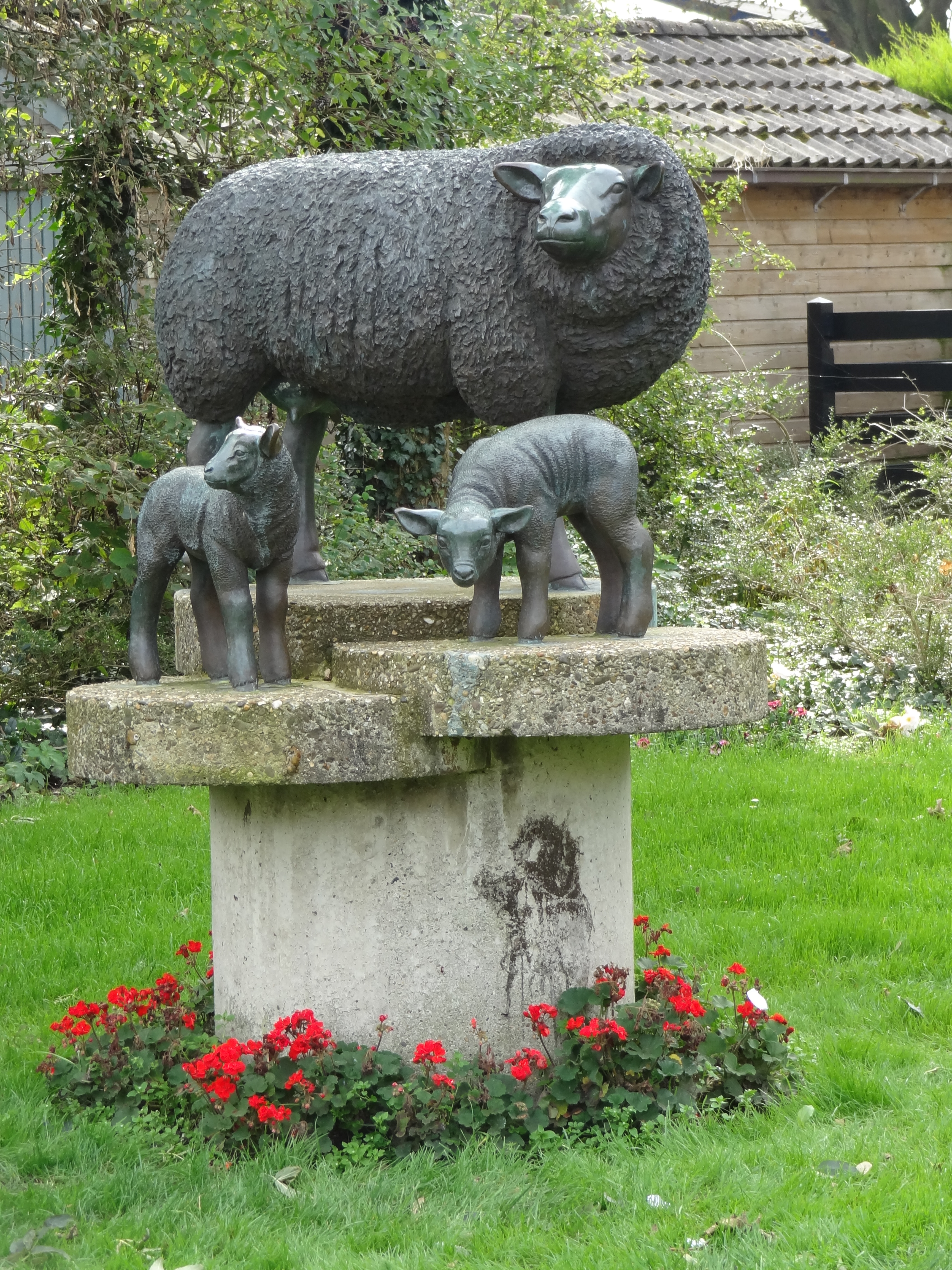 Sculpture "Schaap met twee lammeren" (Sheep with two lambs) created by Frans T. Voskuil at the corner of Peperstraat and Oranjestraat in Oosterend, The Netherlands